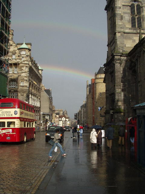 Royal Mile, Edinburgh, where it bisects North and South Bridge.